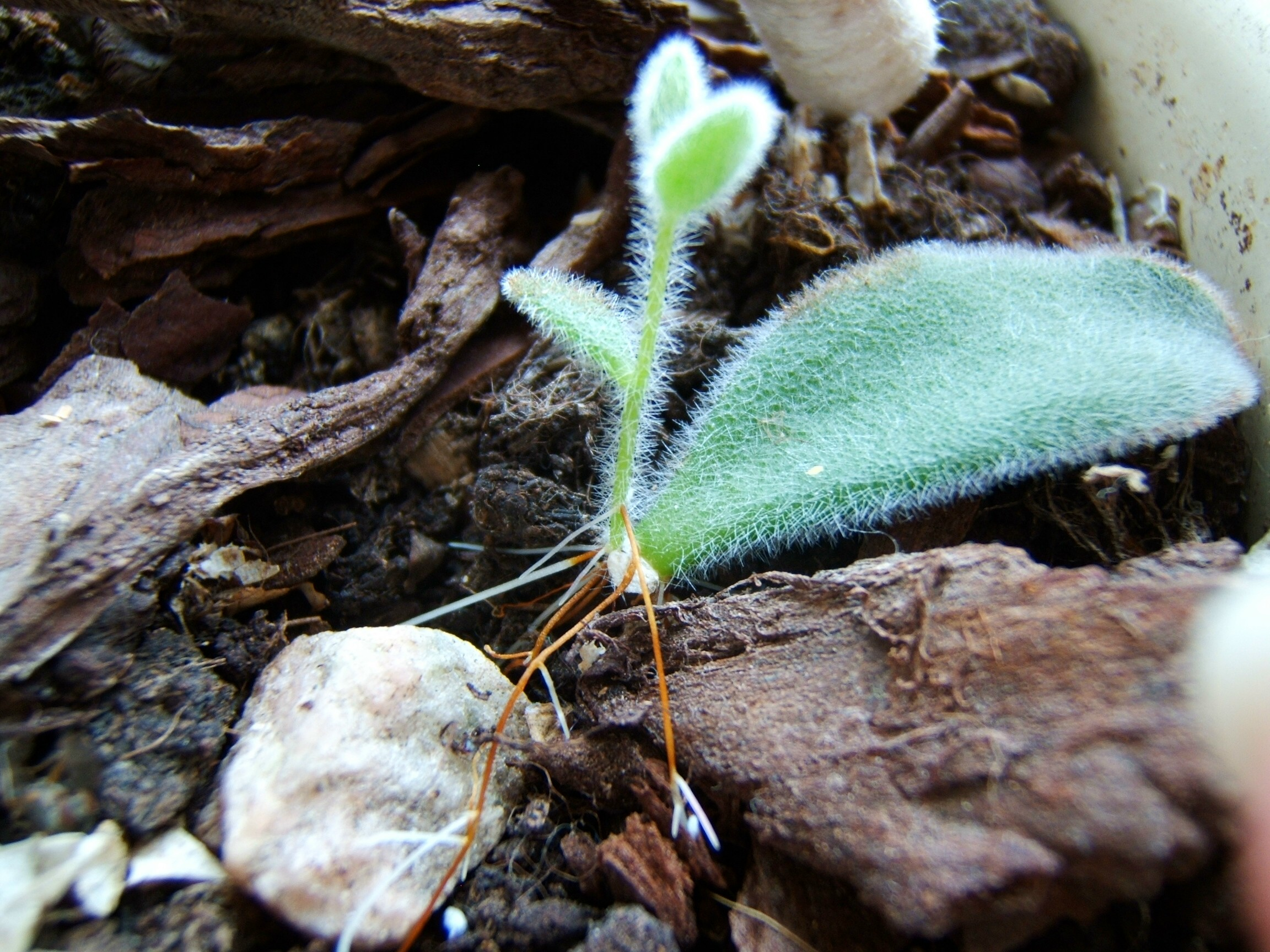 Young-Kalanchoe tomentosa